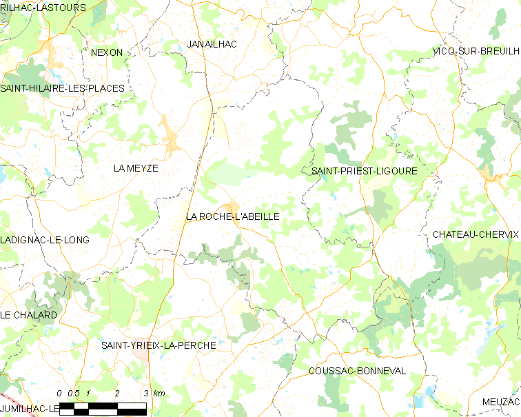 Map of French municipality La Roche-l'Abeille